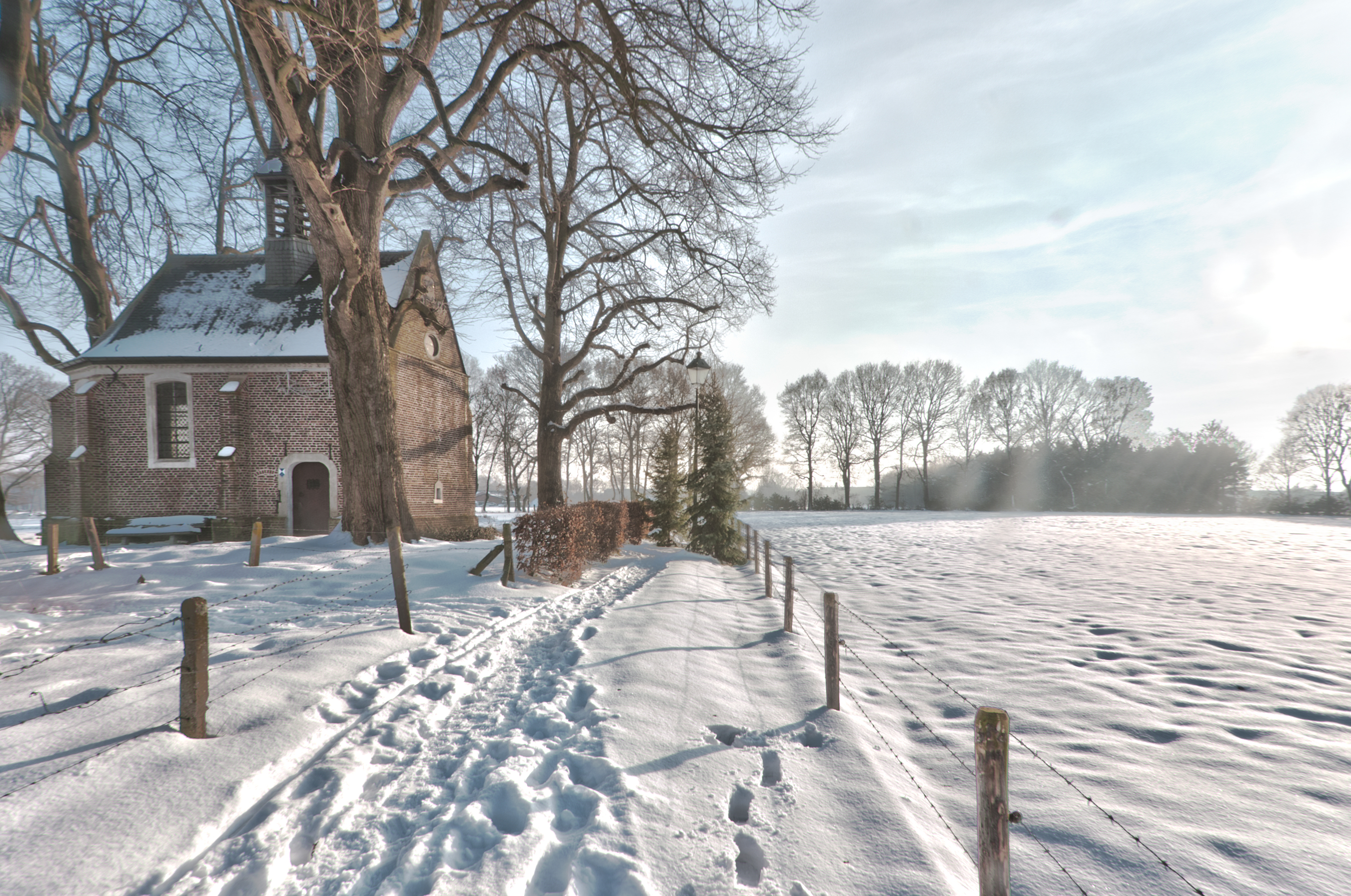 The Sint-Willibrordus chapel is located in Meren, OLV Olen. It is first mentioned in 1414, and was used for mass from 1572 to 1918. It was restored in 1990, and is now used for civil marriages.